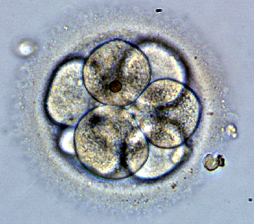 8-cell human embryo (3rd day of development).